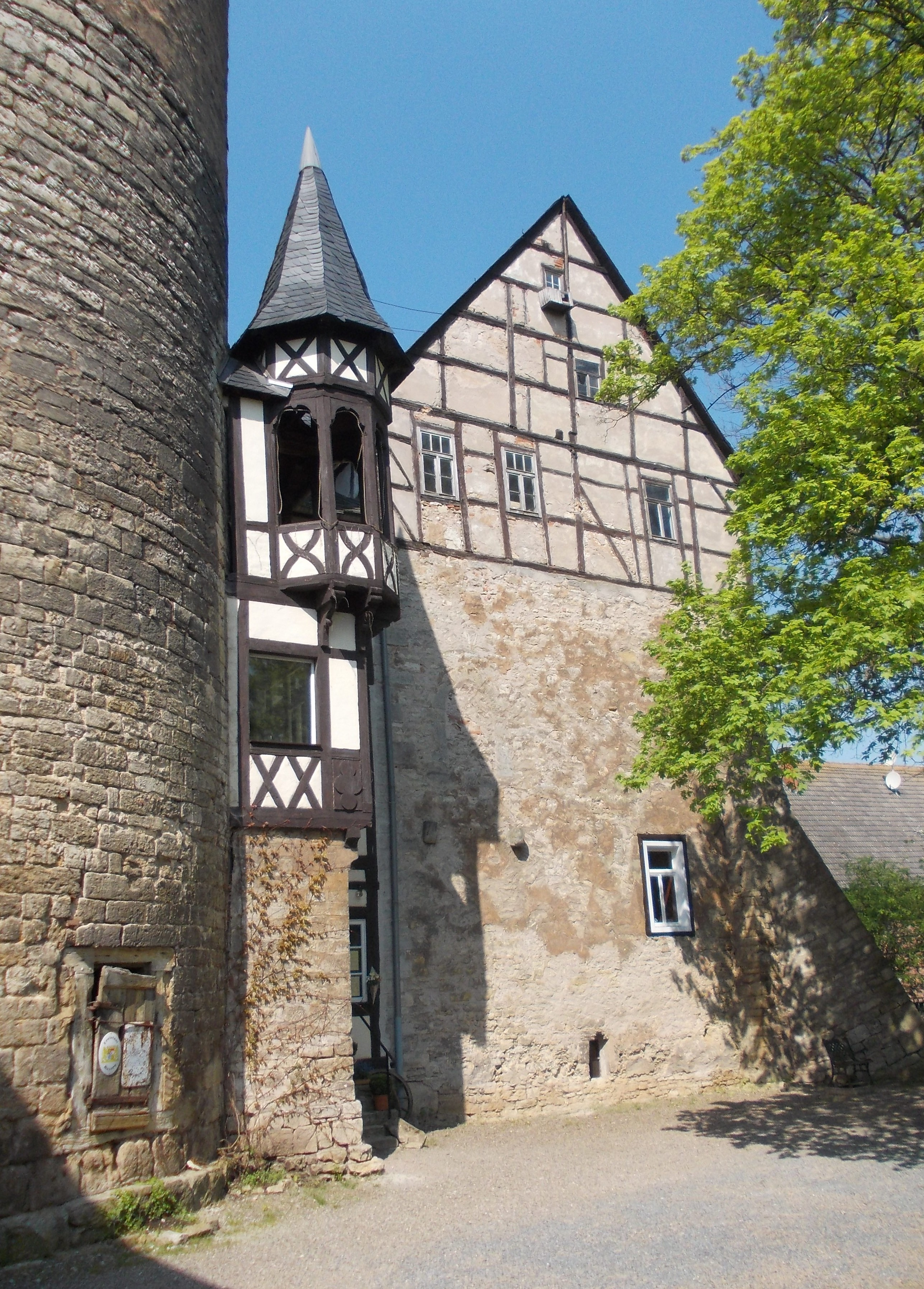 Grossfurra castle (Sondershausen, district: Kyffhäuserkreis, Thuringia)